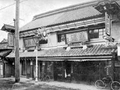 Ozawa Pharmacy was located in Tōkyō City, Tōkyō Prefecture.